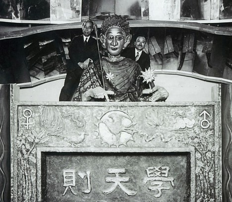 Picture of Gakutensoku (學天則). It was build in 1928 by a japanese biologist, Makoto Nishimura (西村真琴), and called a kind of robot which could move arms and change facial expression automatically.